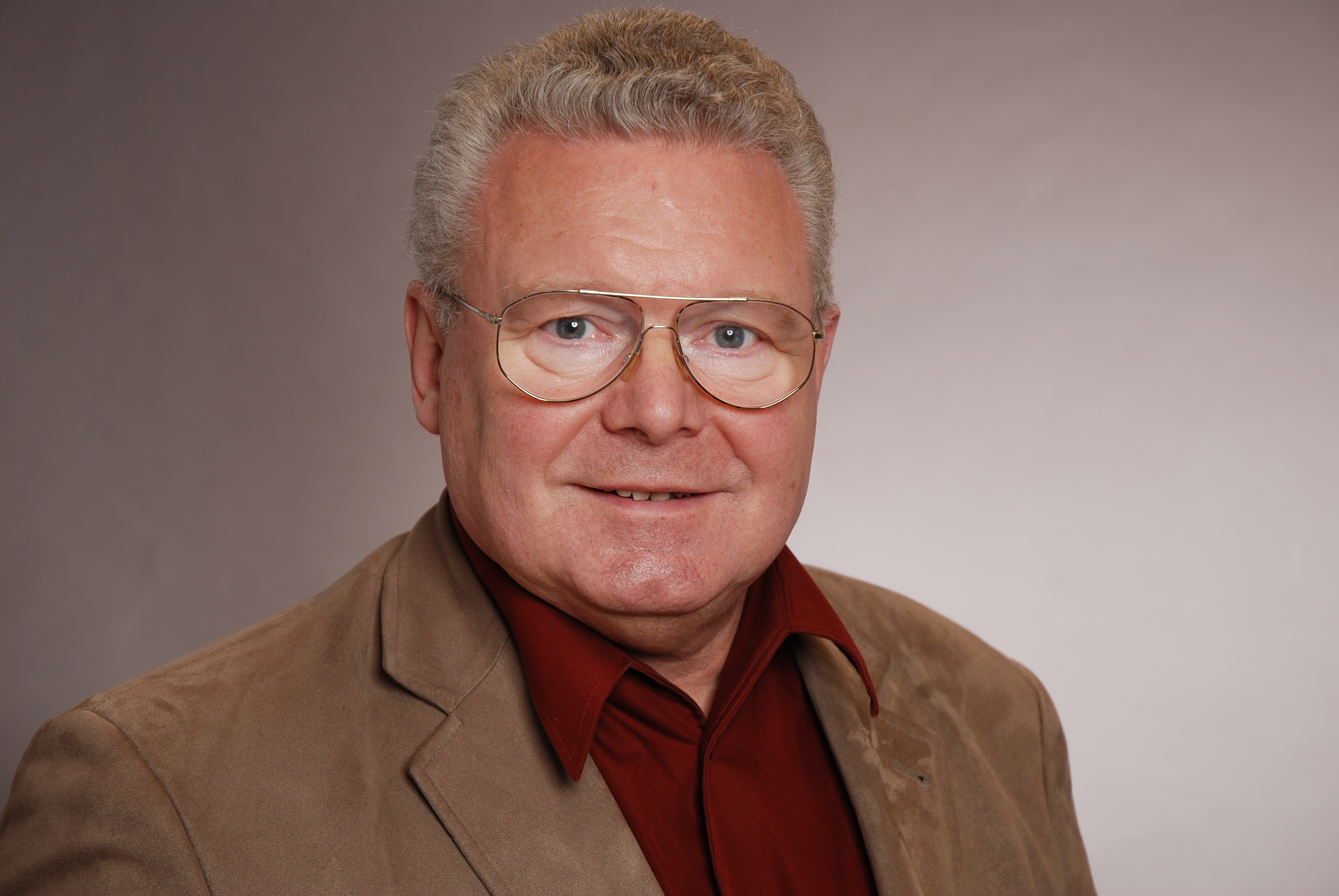 Wittko_Francke